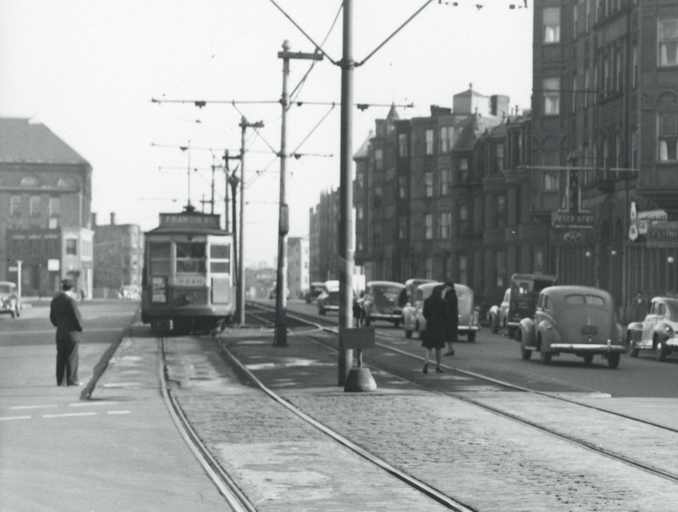 An outbound Type 4 trolley approaches the cutback at Francis Street (Brigham Circle) in 1943